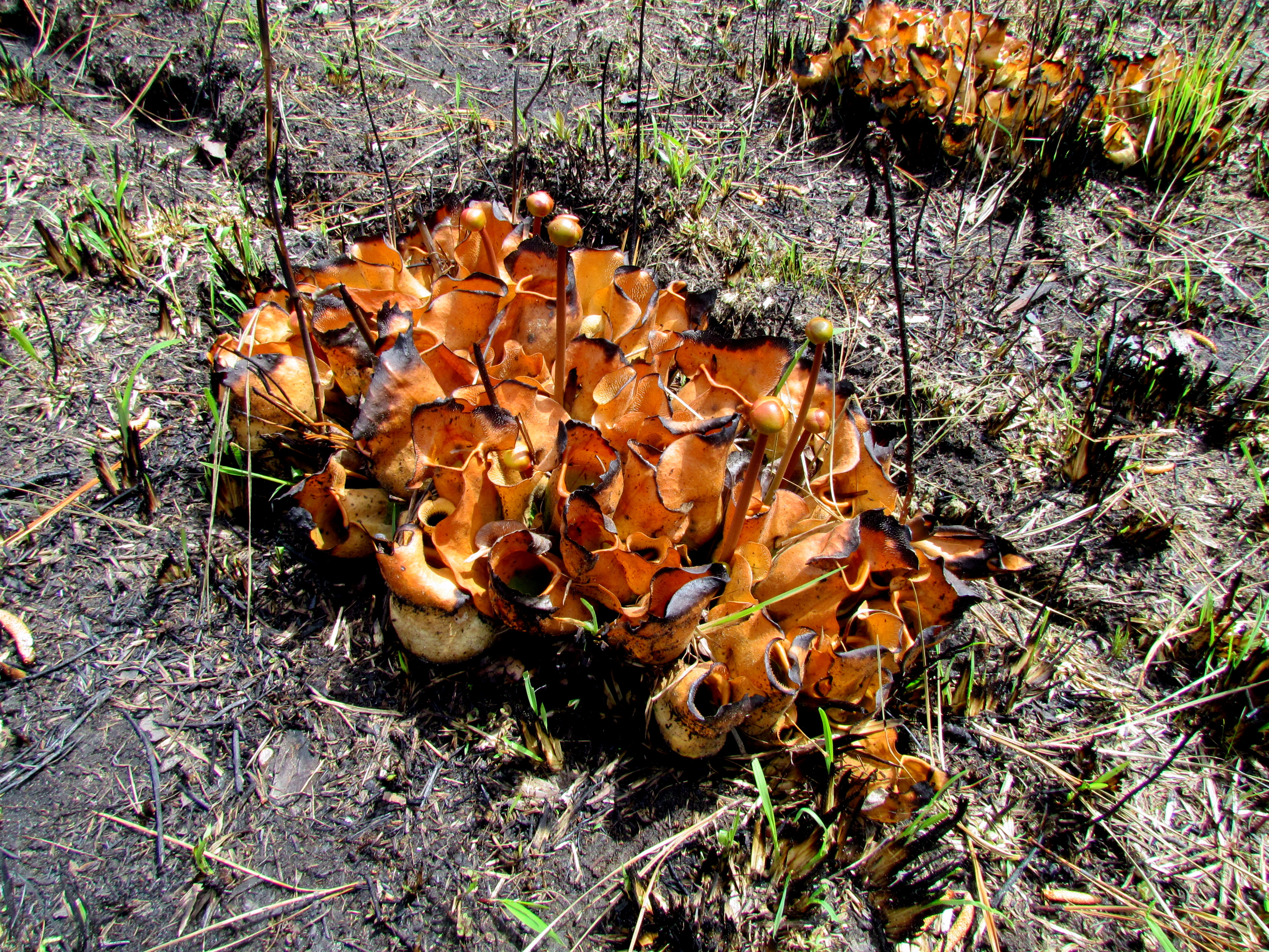 Pticher Plants after burn Carvers Creek SP NC 0917